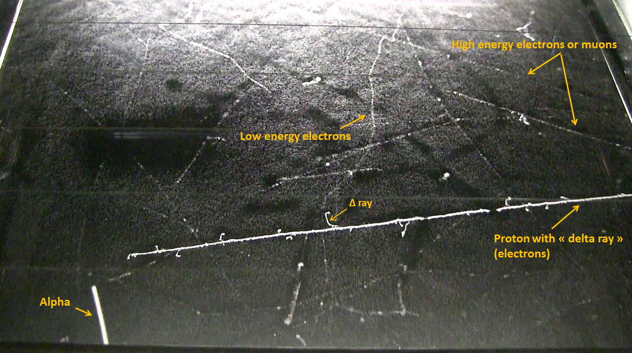 This rare picture show the 4 type of charged particles that we can detect in a cloud chamber : alpha, proton, electron and muons (probably). Picture taken at the Pic duMidi at 2877 m in a Phywe PJ45 diffusion cloud chamber. Size of the interaction surface if 45x45 cm